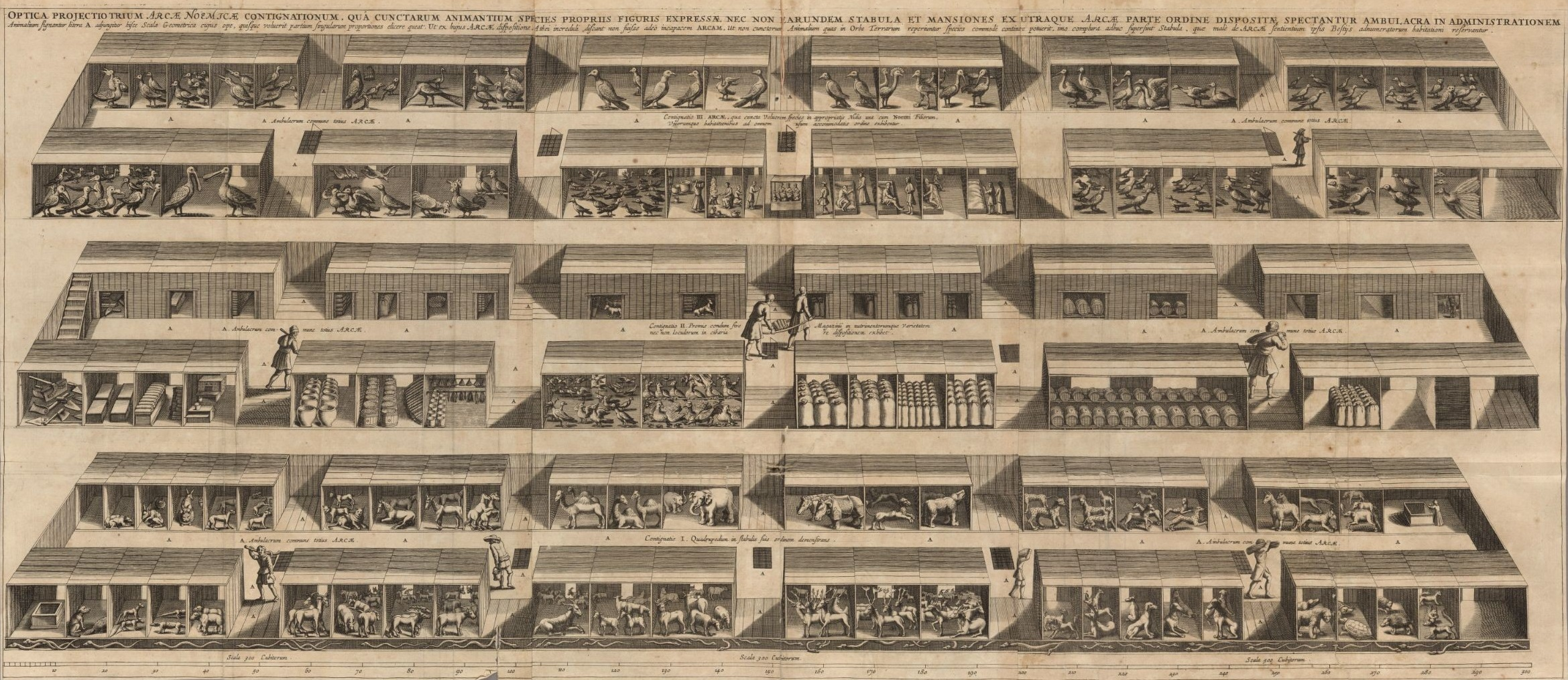 Illustration: "Optica projectio trium arcæ noemicæ contignationum..." From Athanasii Kircheri è Soc. Jesu Arca Noë, in tres libros digesta, quorum I. De rebus quæ ante Diluvium; II. De iis, quæ ipso Diluvio ejusque diratione; III. De iis, quæ post Diluvium à Noëmo gesta sunt, quæ omnia nova methodo, nec non summa argumentorum varietate, explicantur, & demonstrantur, 1675. GC6 K6323 675a (A), Houghton Library, Harvard University